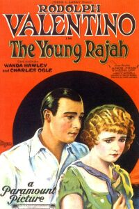 For article The Young Rajah, this is a theatrical poster for the 1922 film The Young Rajah.